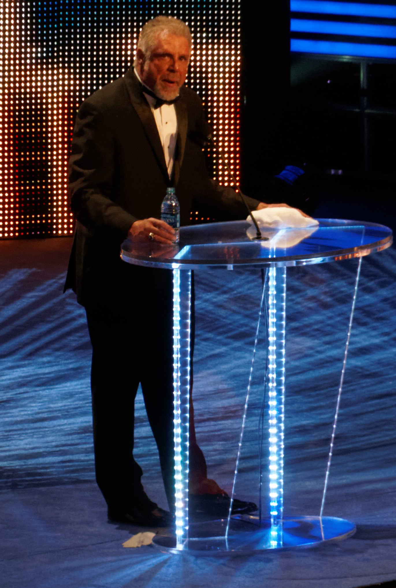 THE Ultimate Warrior makes a speech during his induction into the WWE Hall of Fame.